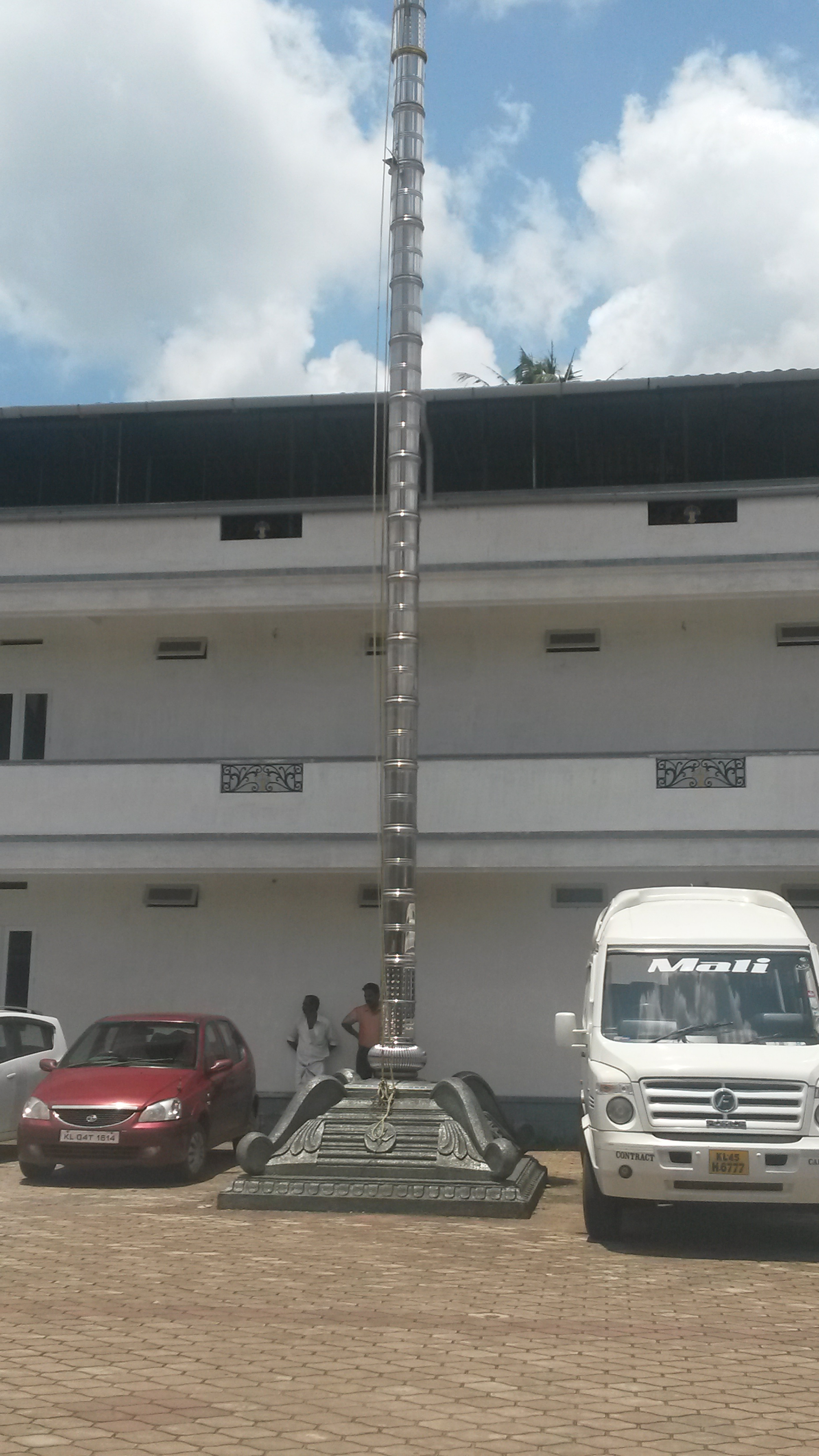 Flag post of OLPH Church, West Chalakudy